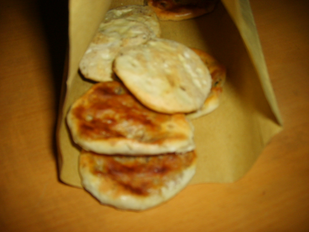 Kompyang made from Jian'ou